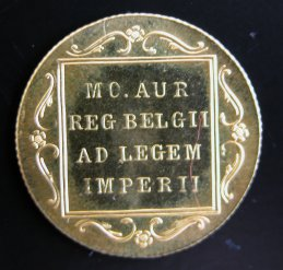 Golden ducat from the Netherlands 1974. Back side.